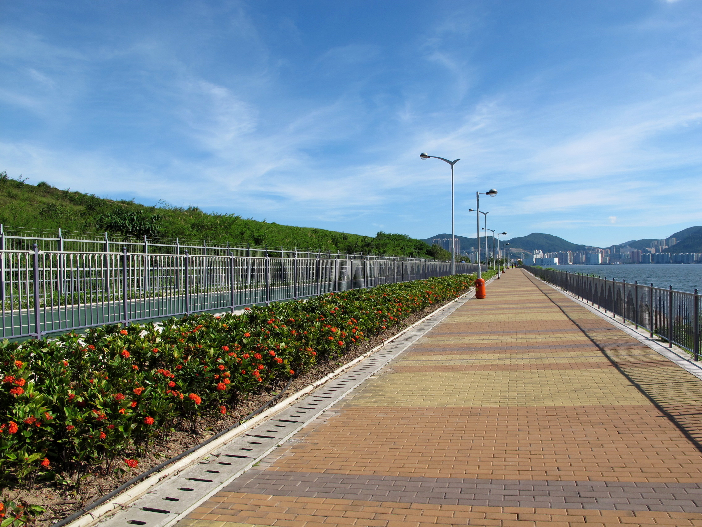 Tseung Kwan O South Waterfront Promenade